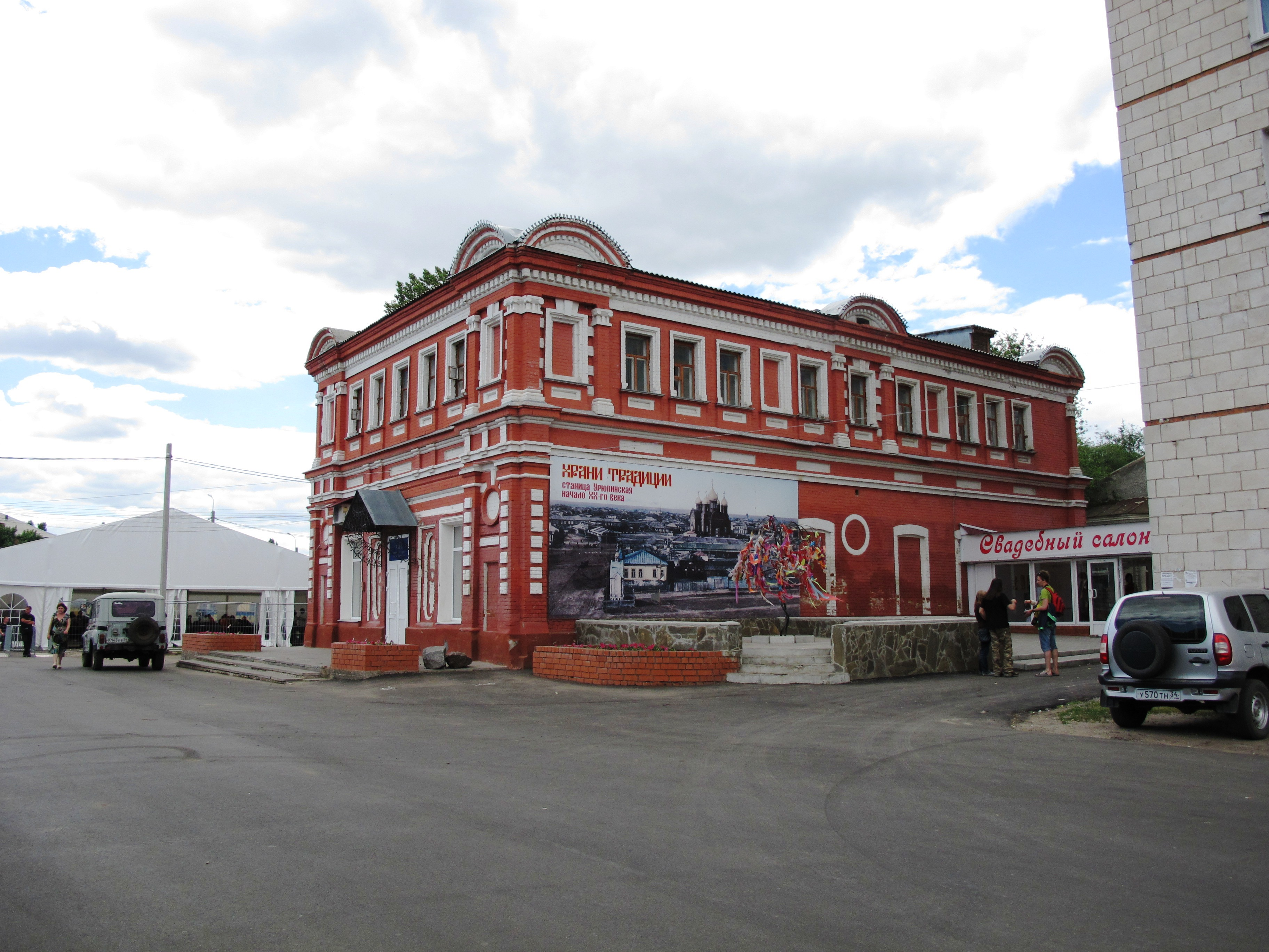 Building in Uryupinsk, Russia.